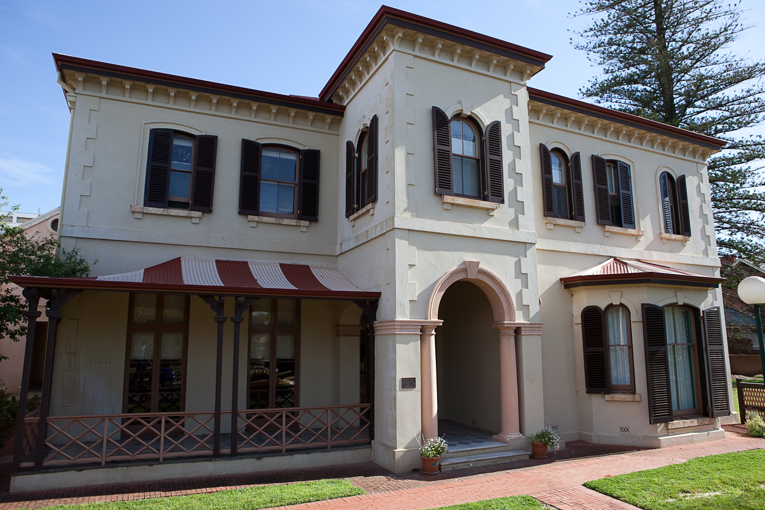 Lincoln College Federation House, Brougham Place North Adelaide